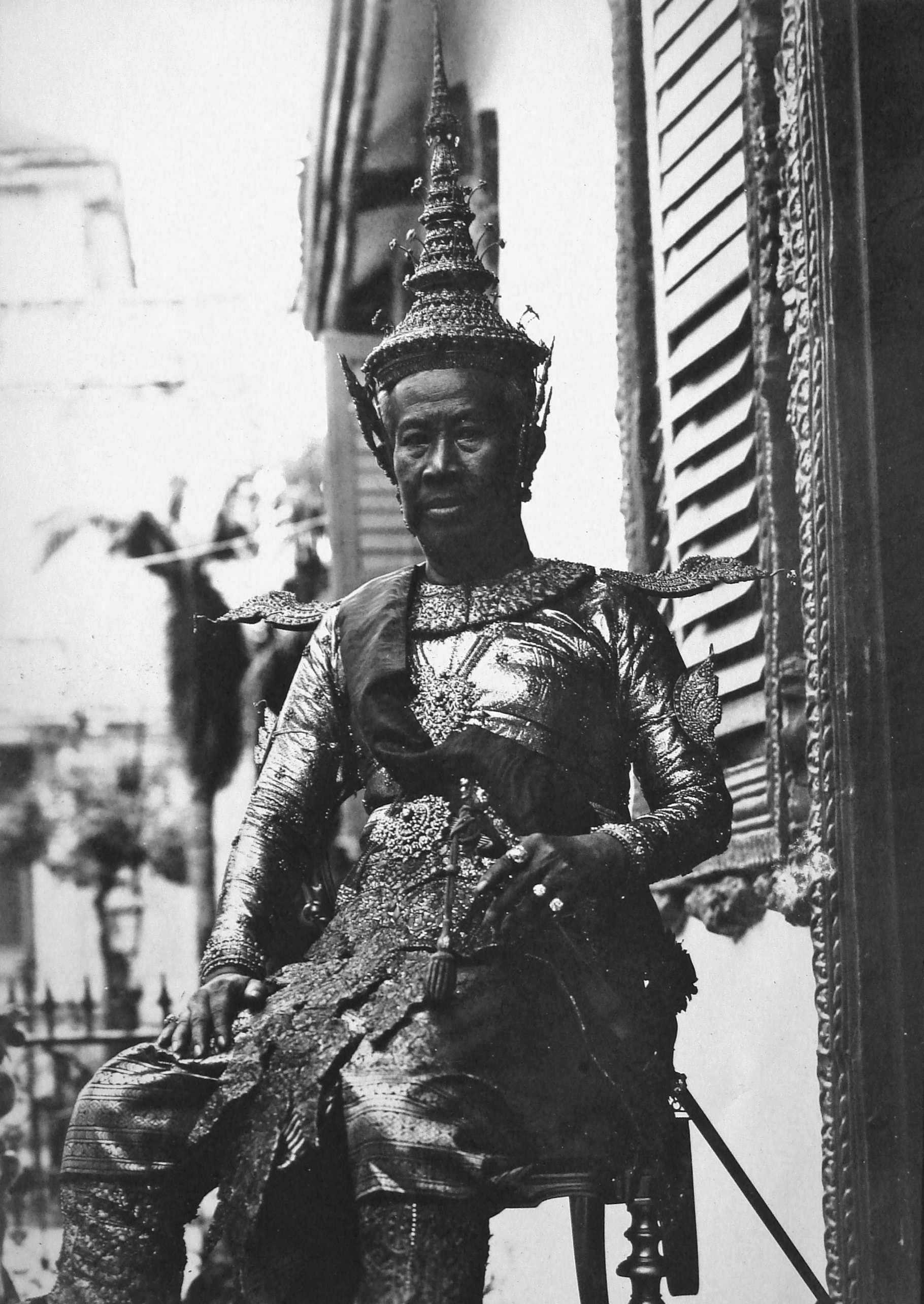 Prince_Sisawat